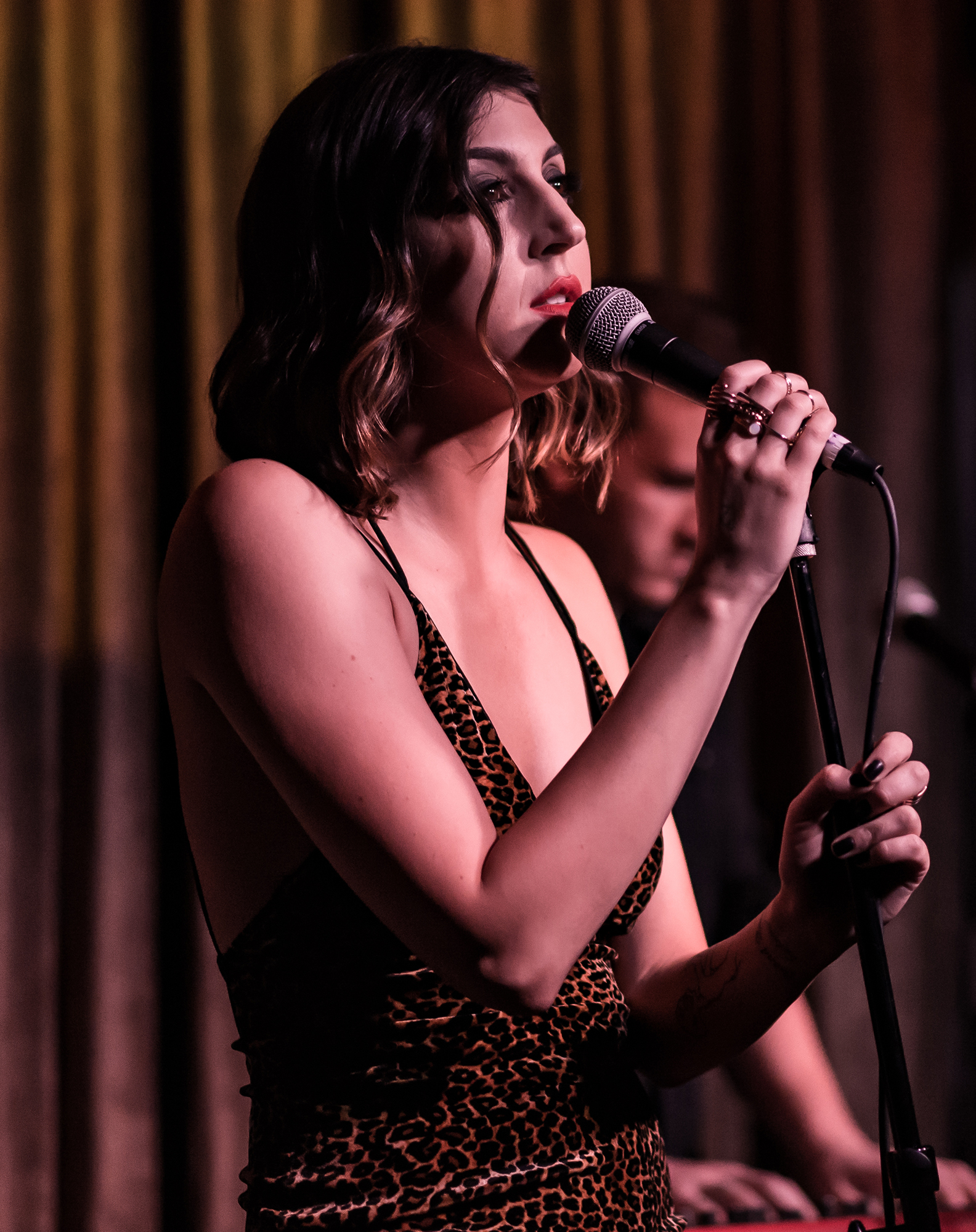 Laces at the Hotel Cafe